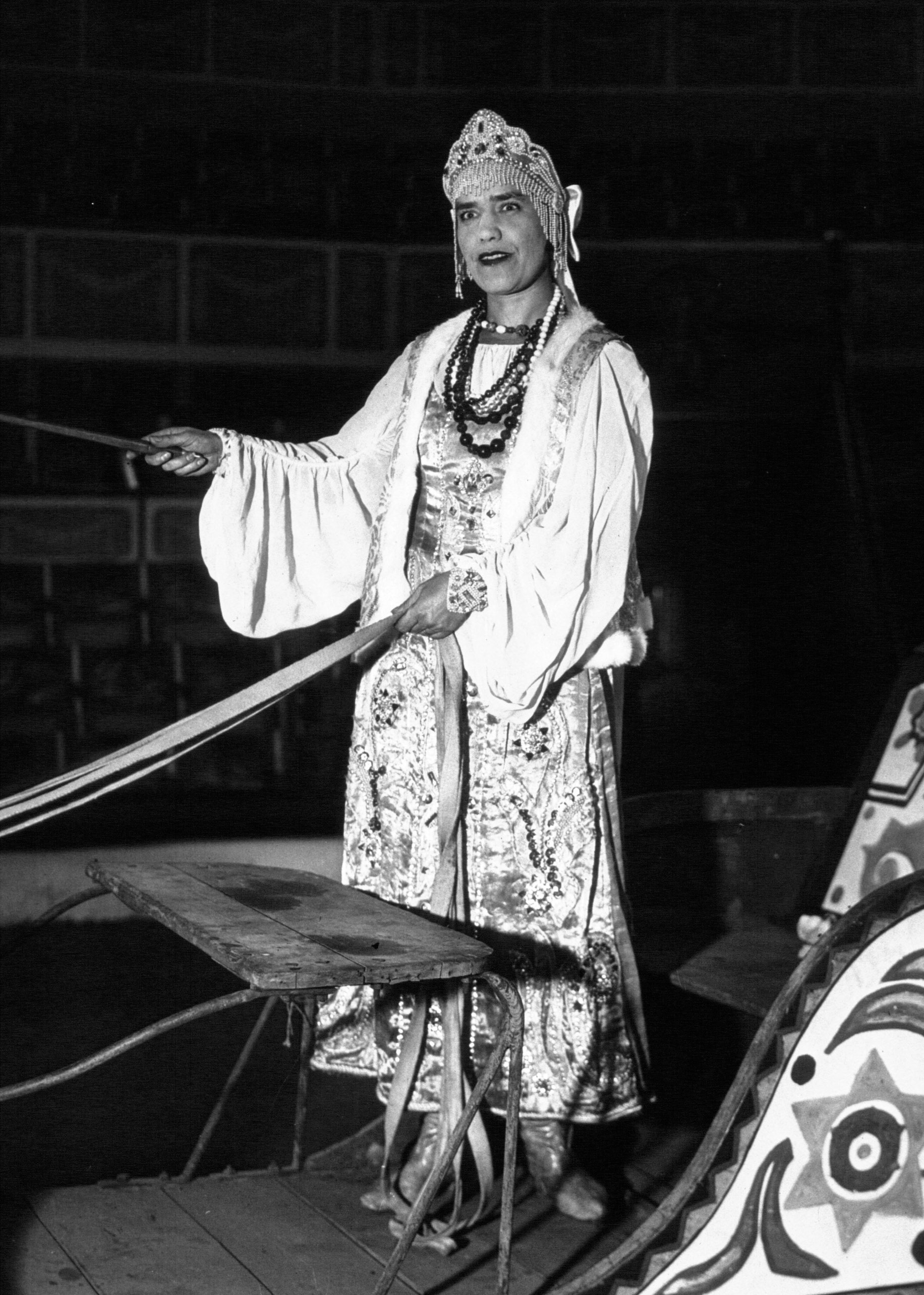 Grigori Rasputin's daughter Maria Rasputin (1898-1977) as a circus performer in 1932.